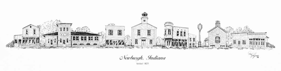 A sketch of prominent buildings in Newburgh, Indiana